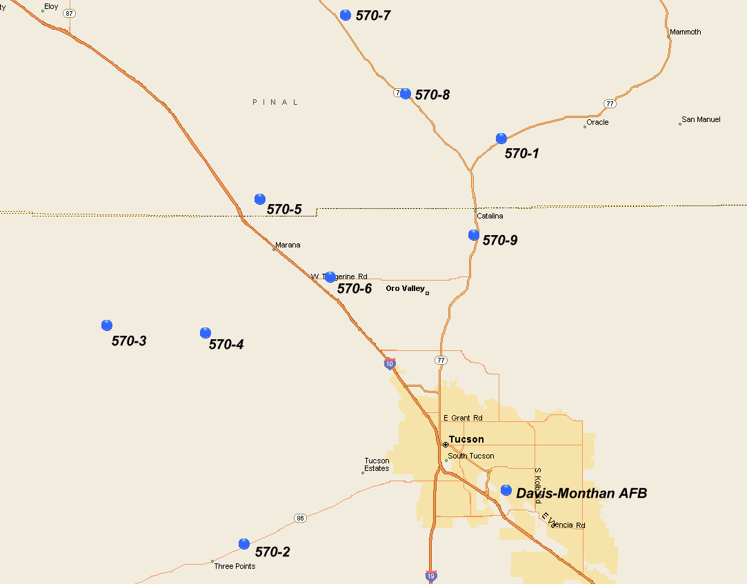 570th Strategic Missile Squadron - LGM-25C Titan II Sites